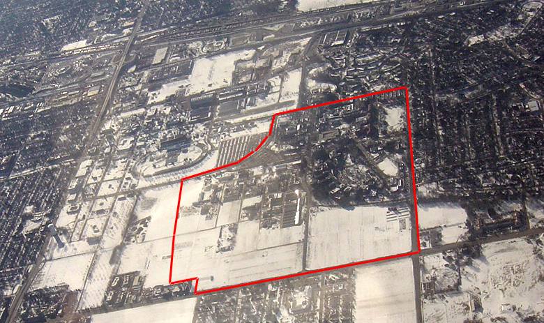 The St. Paul Campus of the University of Minnesota. The bottom of the photo is North. Adjoining the campus on the left (East) are the fairgrounds of the Minnesota State Fair. January 25, 2006.